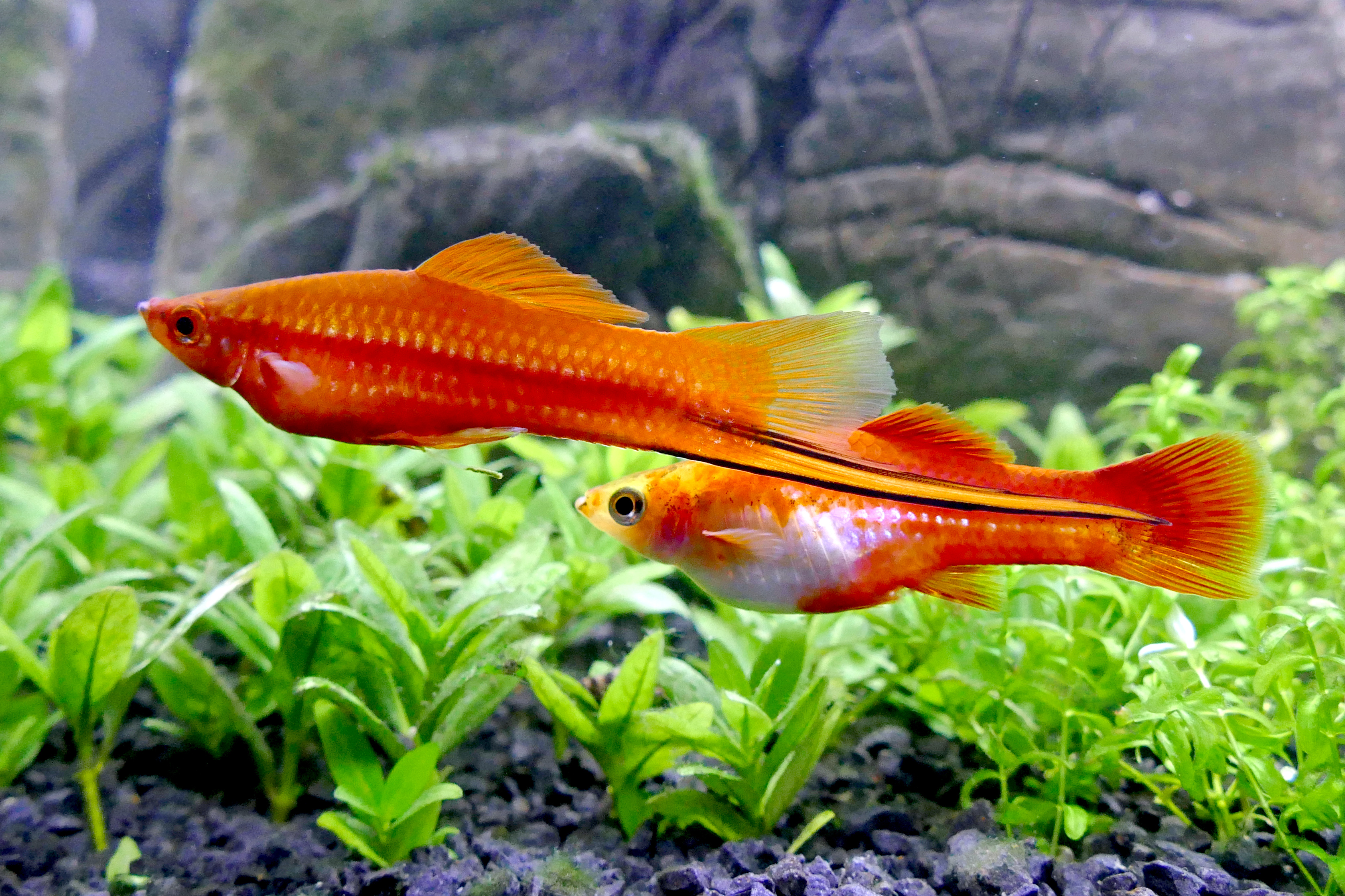 Xiphophorus Hellerii, Swordtail, red (male & female)